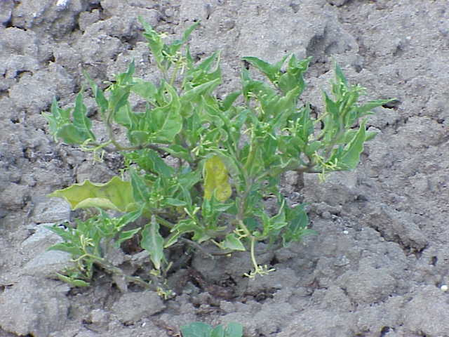 Species: Solanum morelliforme Family: Solanaceae Image No. 2